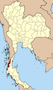 Map of Thailand highlighting Ranong province